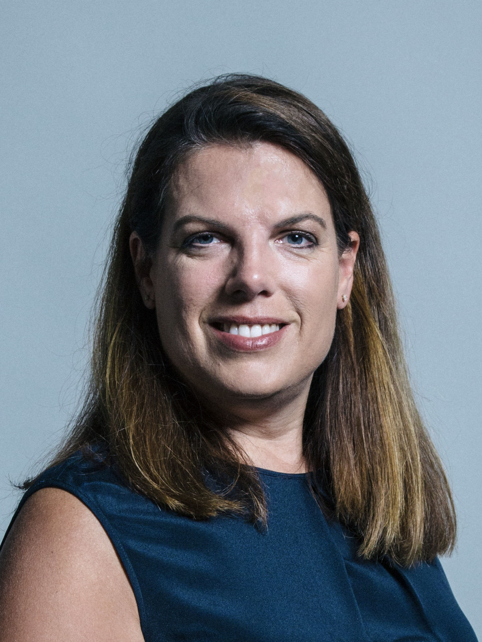 Official portrait of Caroline Nokes